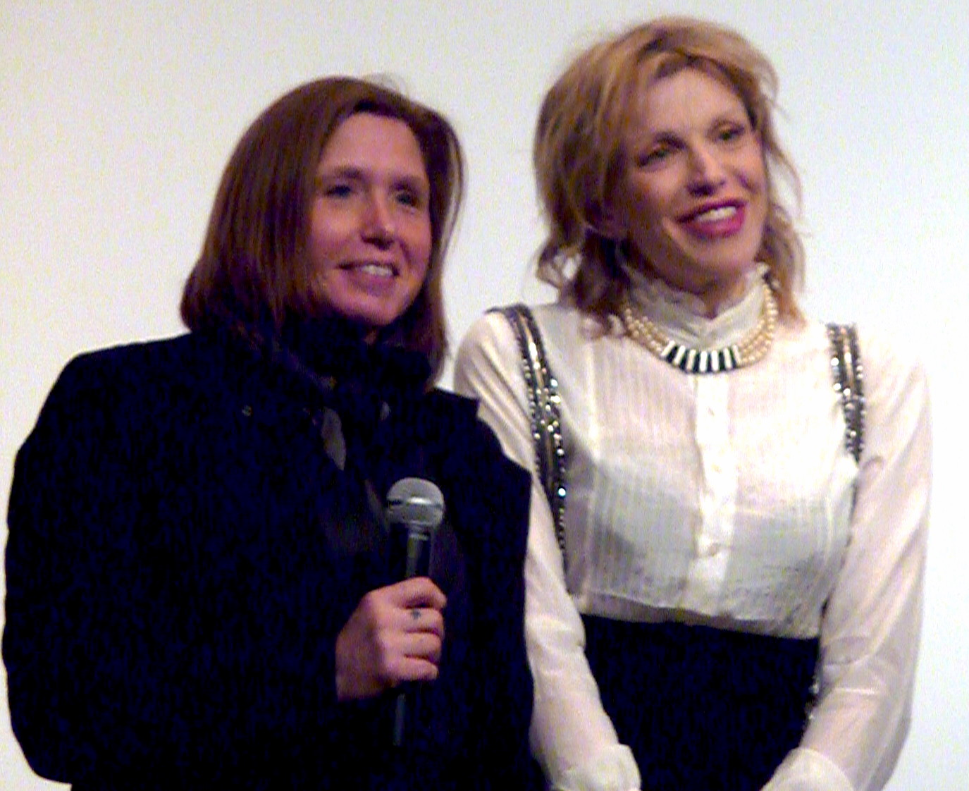 Patty Schemel and Courtney Love at MoMA for screening of Hit So Hard